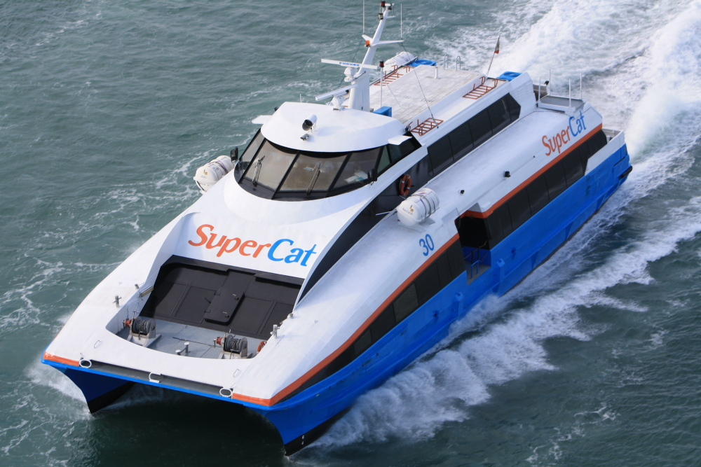 not your ordinary catamaran...